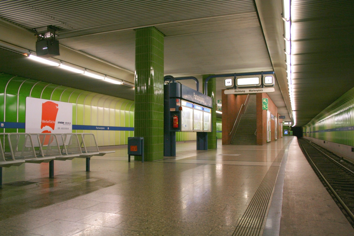 Munich subway station Partnachplatz